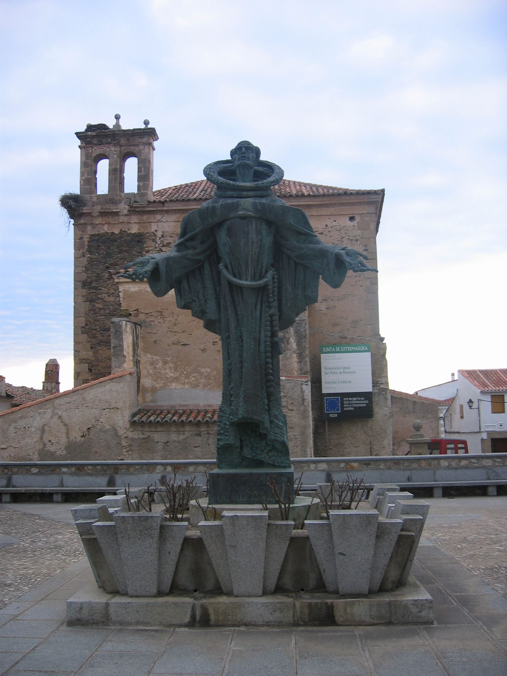 Monument to Saint Peter of Alcantara from Navarro Gabaldón, City of Alcántara (Spain)